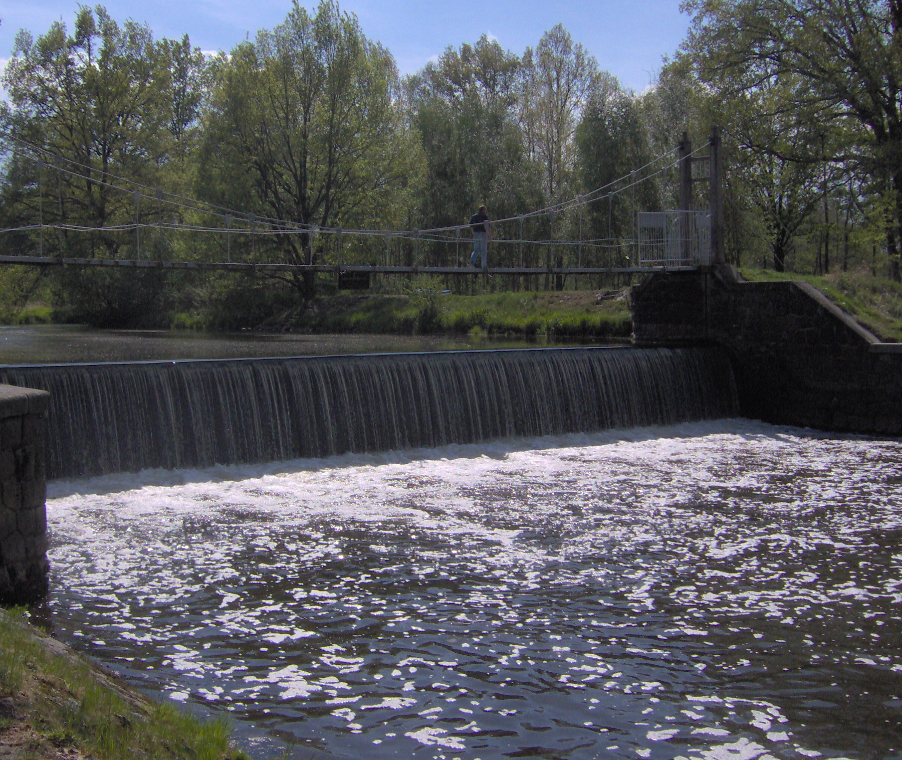 Weir Pilař, river Lužnice, Czech republic